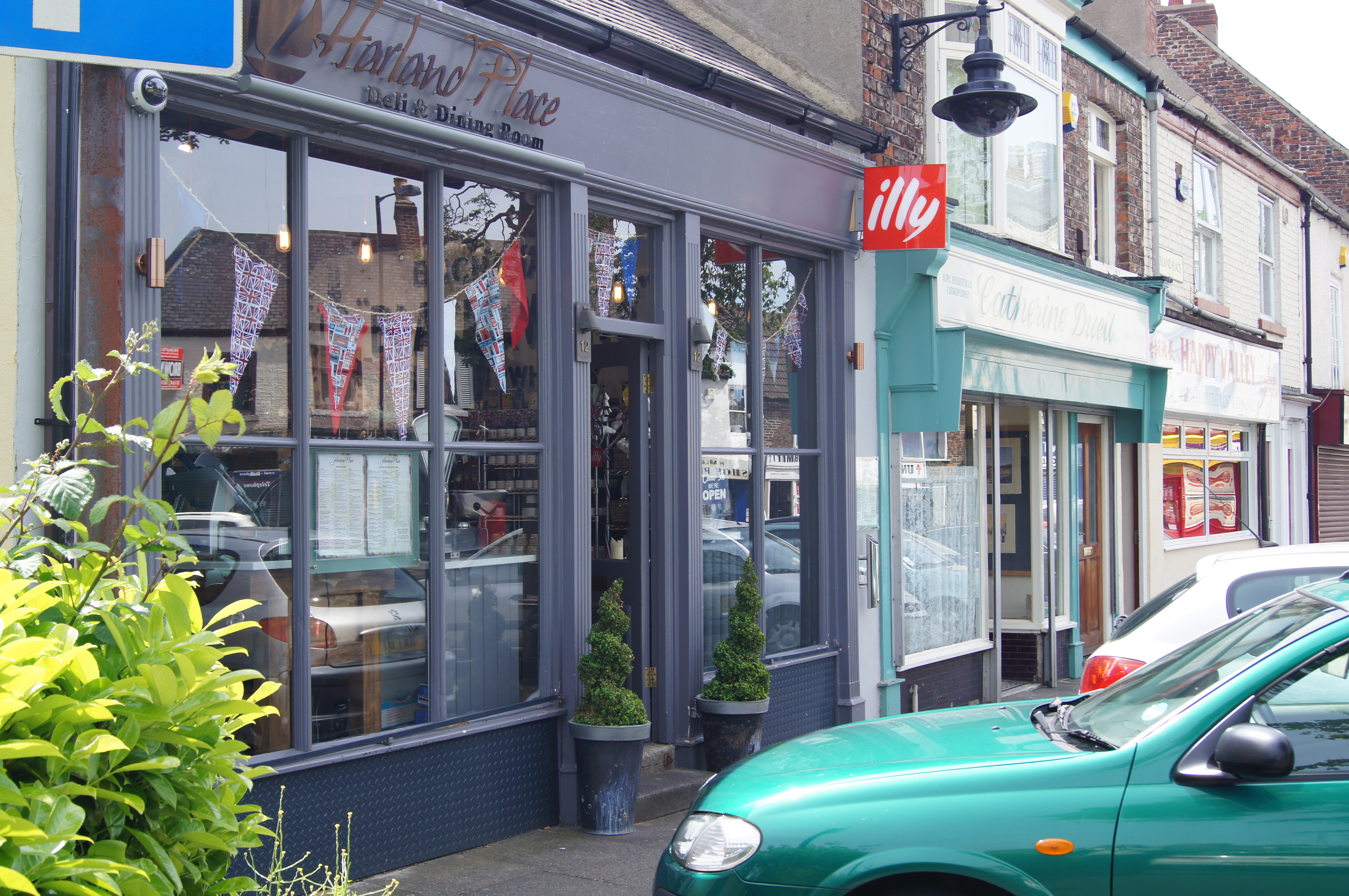 12 Harland Place, deli & dining room in Norton, County Durham.